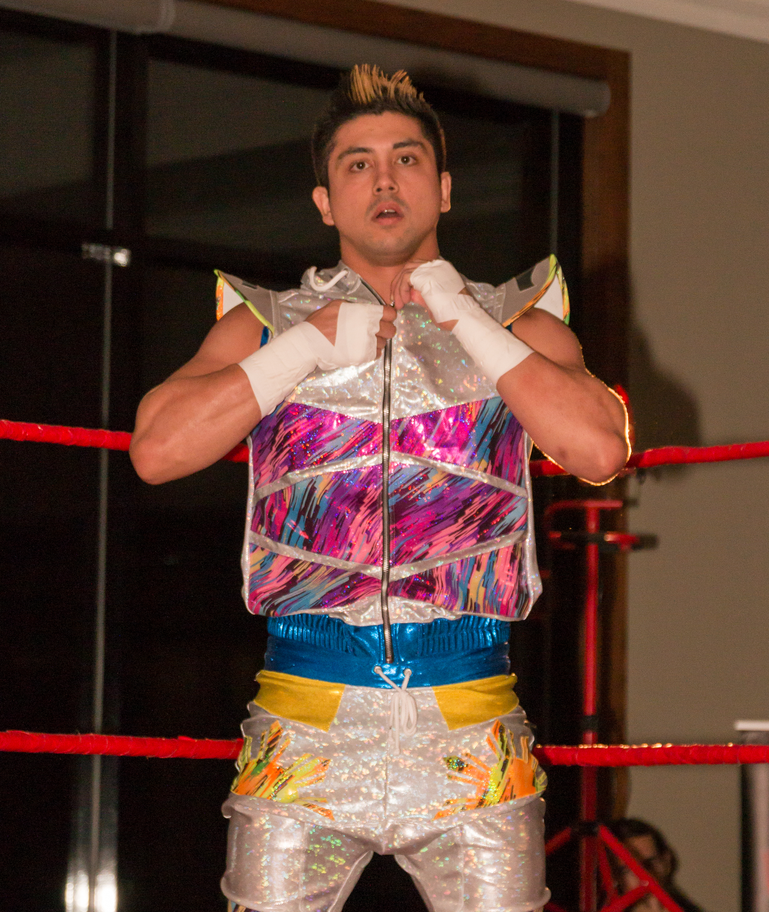 Independent wrestler TJ Perkins getting ready for action at an Alpha-1 show in Hamilton, ON